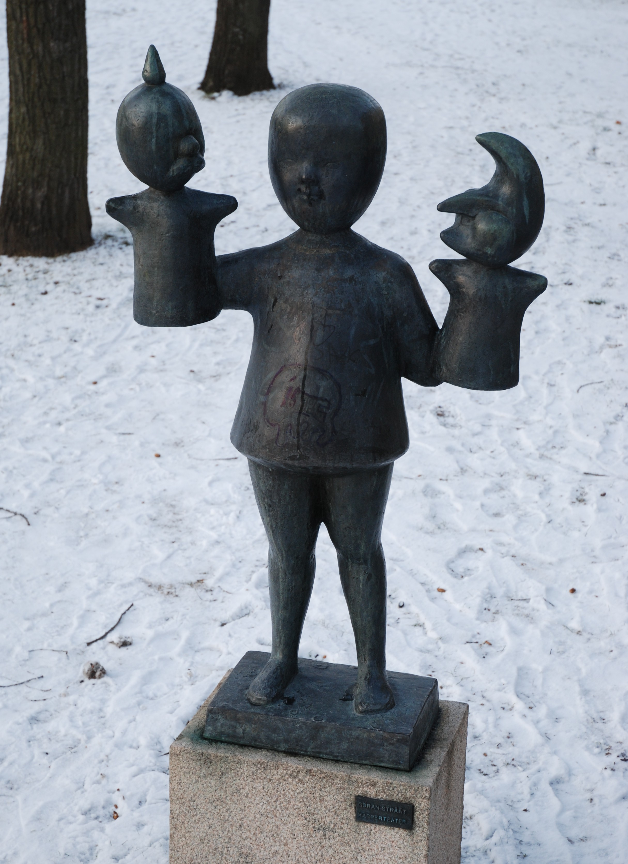 Göran Strååt´s Kasperteater, brons, Skärholmen, Stockholm